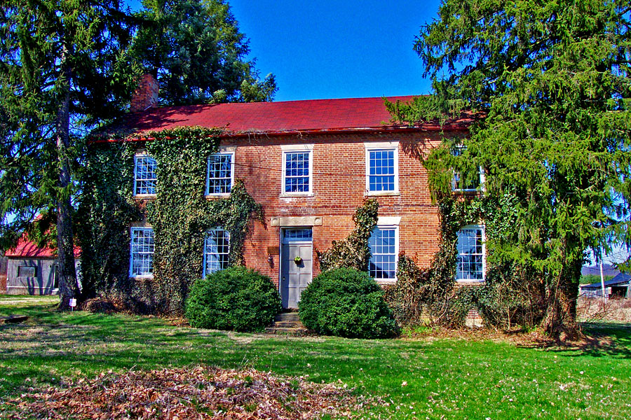 Front of Friendly Grove, located on Zahns Corner Road east of Piketon in Seal Township, Pike County, Ohio, United States. Built in 1824, it is listed on the National Register of Historic Places.